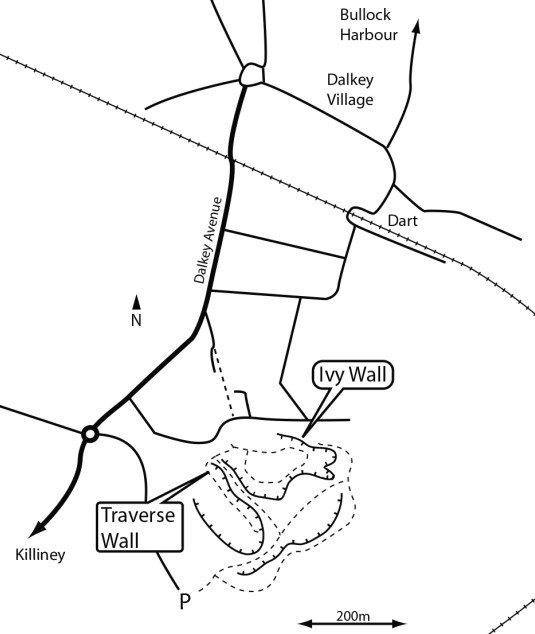 Location and layout of Dalkey Quarry rock climbing area in Dublin, Ireland